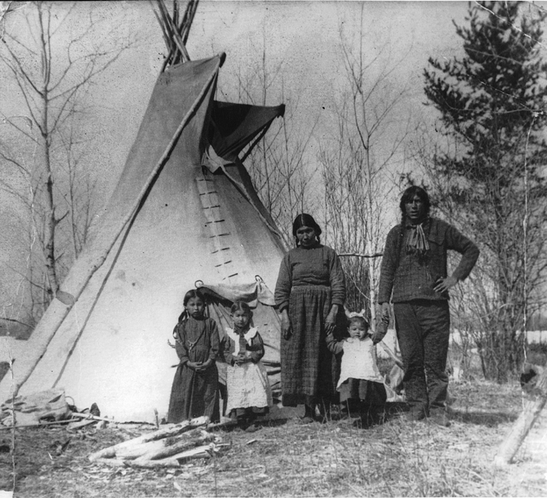 MP-1979.66 Aboriginal family near Prince Albert, SK, 1919 Walter Cross 1919, 20th century Notman photographic Archives - McCord Museum MP-1979.66 Famille autochtone près de Prince Albert, Sask., 1919 Walter Cross 1919, 20e siècle Archives photographiques Notman - Musée McCord To see the image file on the McCord Museum website, click on the following link: Pour voir la fiche descriptive de cette photographie sur le site Web du Musée McCord, cliquer le lien suivant